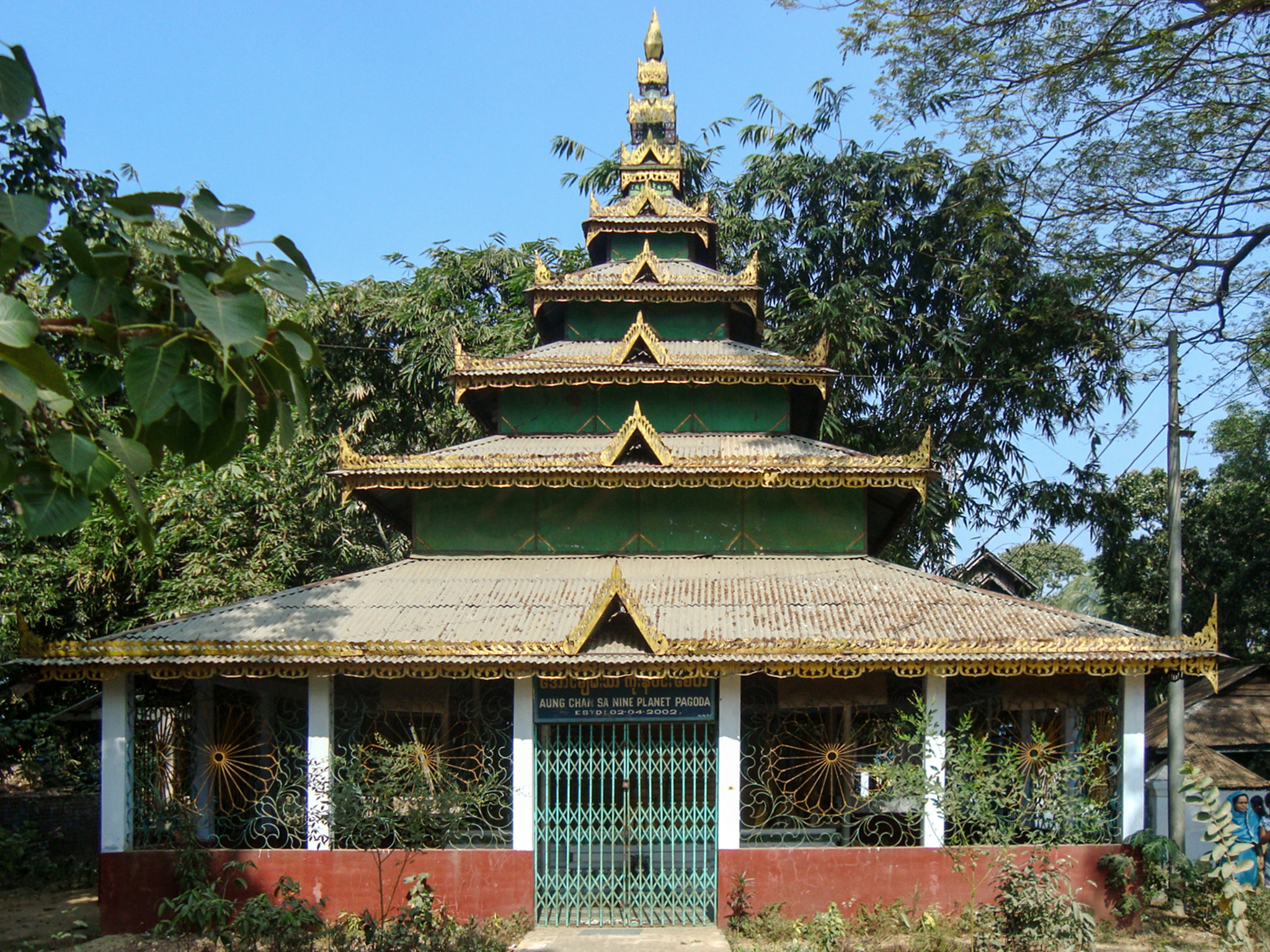 Aung Chan Sa Nine Planet Pagoda in Cox's Bazar, Chittagong, Bangladesh